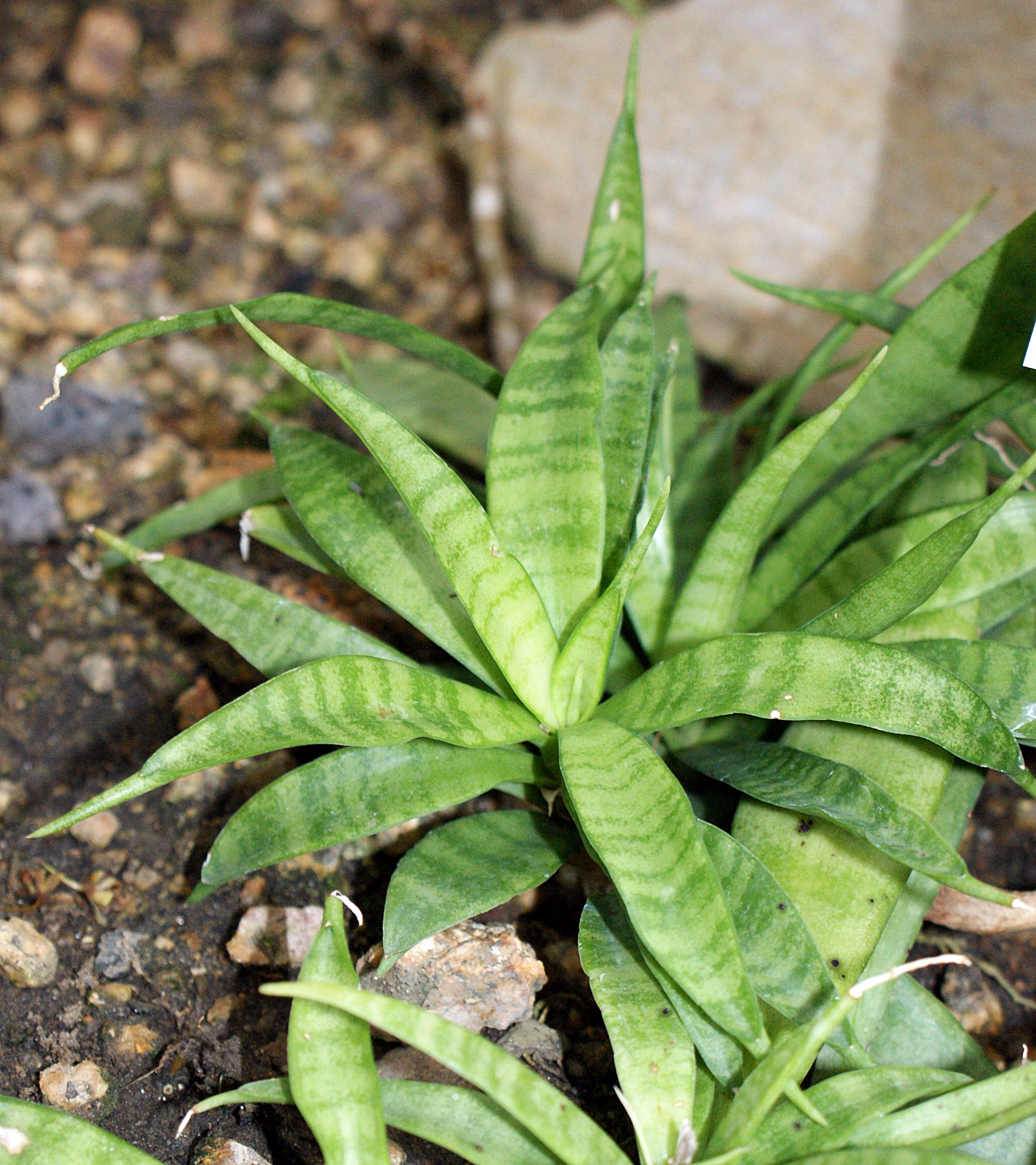 Sansevieria parva